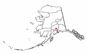 Adapted from Wikipedia's AK borough maps by Seth Ilys.